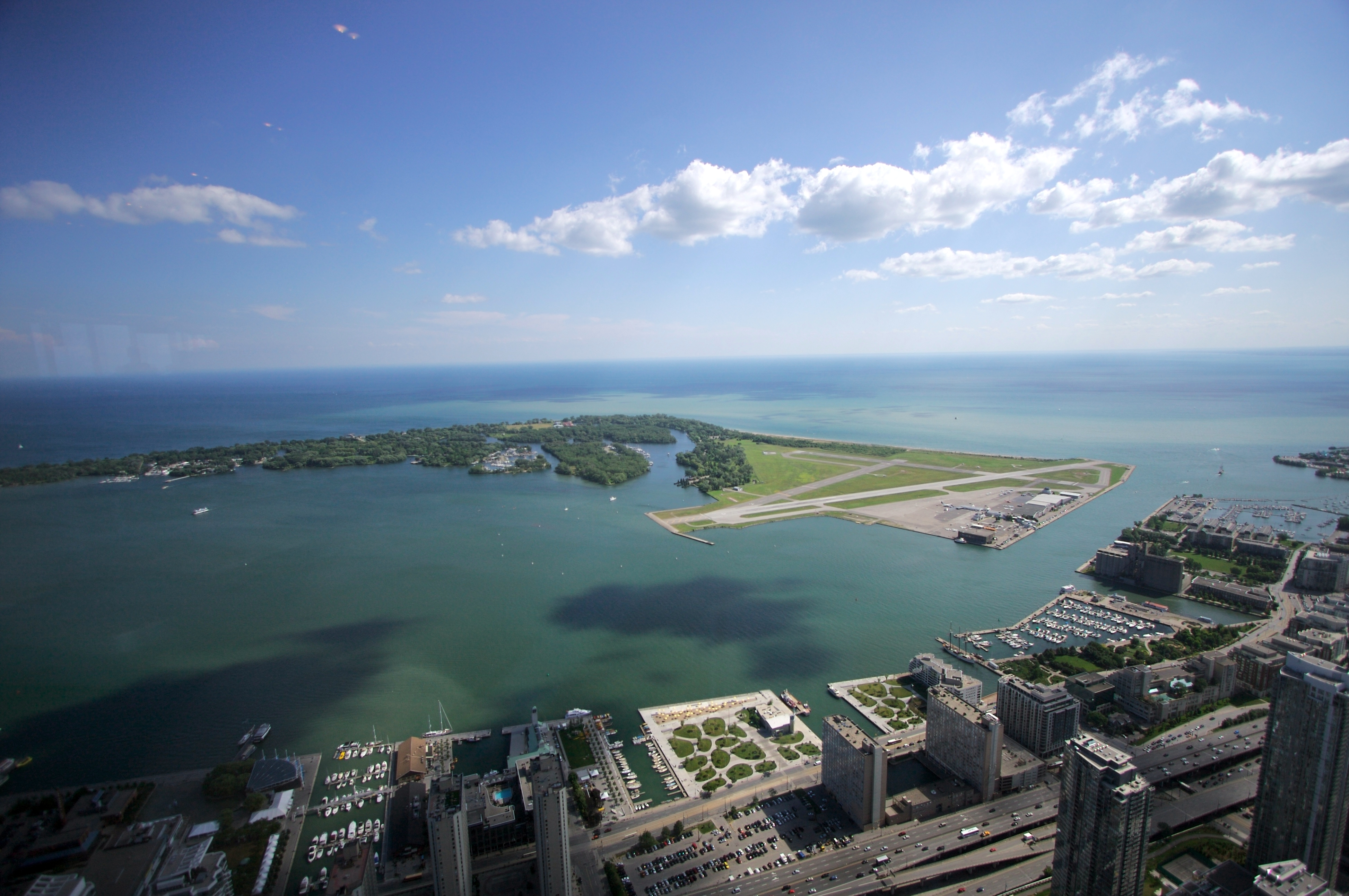 Picture of the Toronto Harbour and Toronto Island taken from about 341 metres up in the CN Tower.